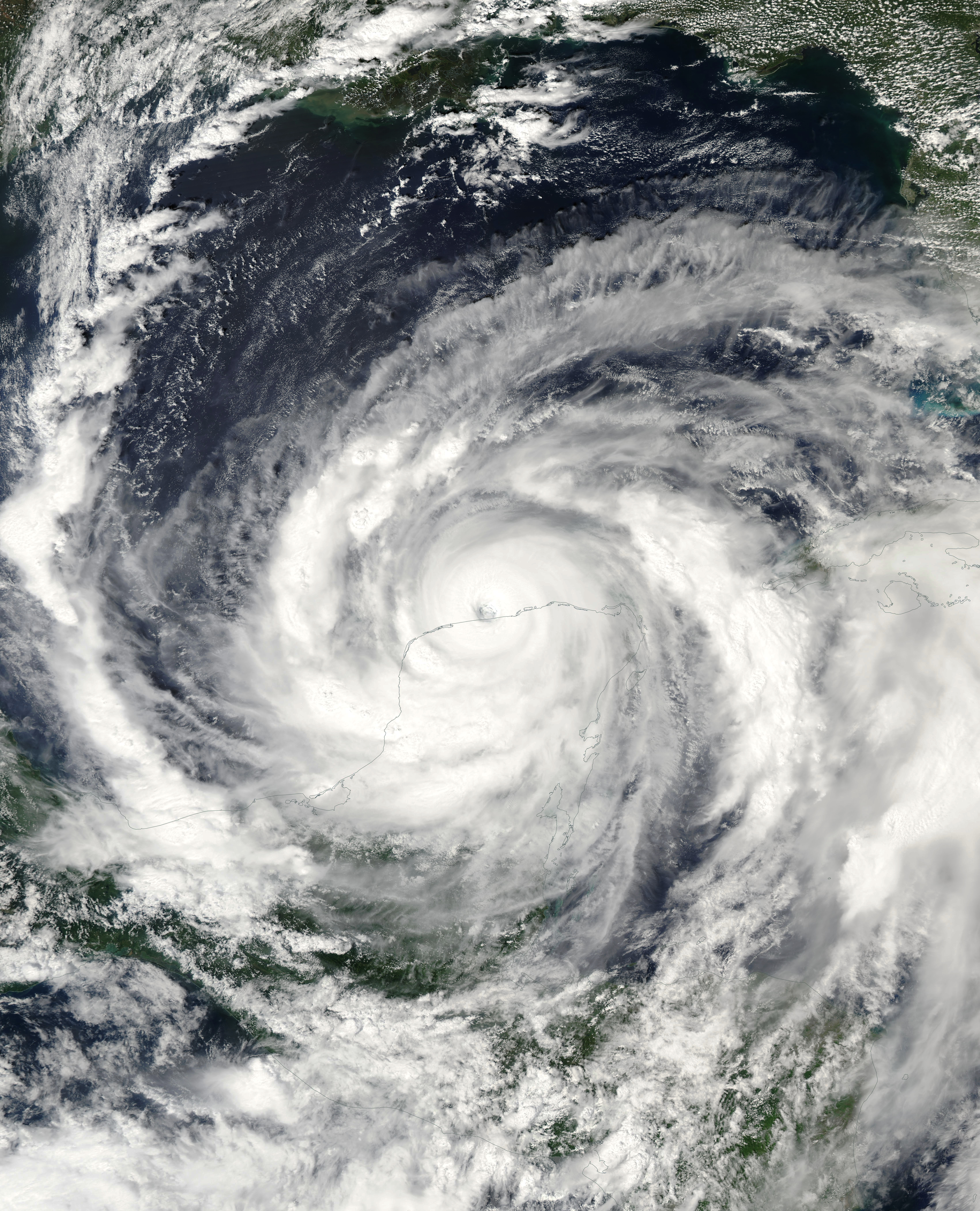 With maximum sustained winds approaching 125 mph (205 km/h), Hurricane Isidore is just skirting the coast of the Yucatan Peninsula. The eye is clearly visible in this image and has an approximate diameter of 20 nautical miles. Isidore is expected to continue on a westward path for the next 24 hours.